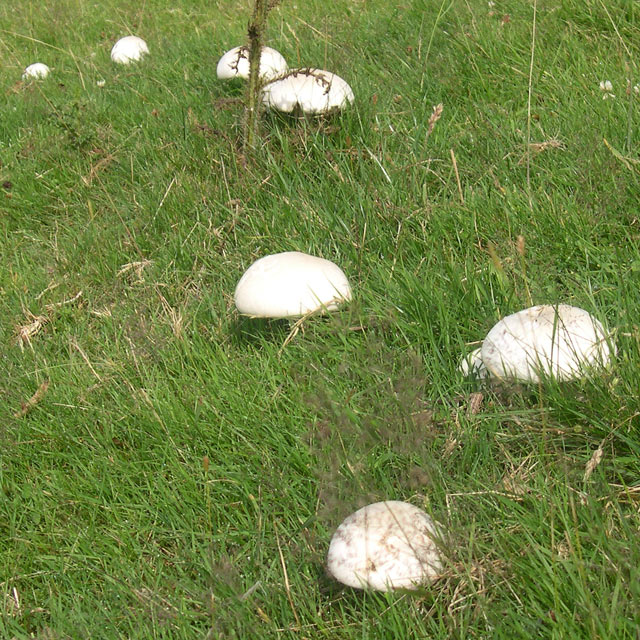 Mushrooms for Breakfast at Ty'n Cornel We had mushrooms at the hostel for several other meals too.....delicious! Agaricus Macrosporus in the field about 200m NW of the hostel. Not usual for July, apparently, but quite common locally later in the year.